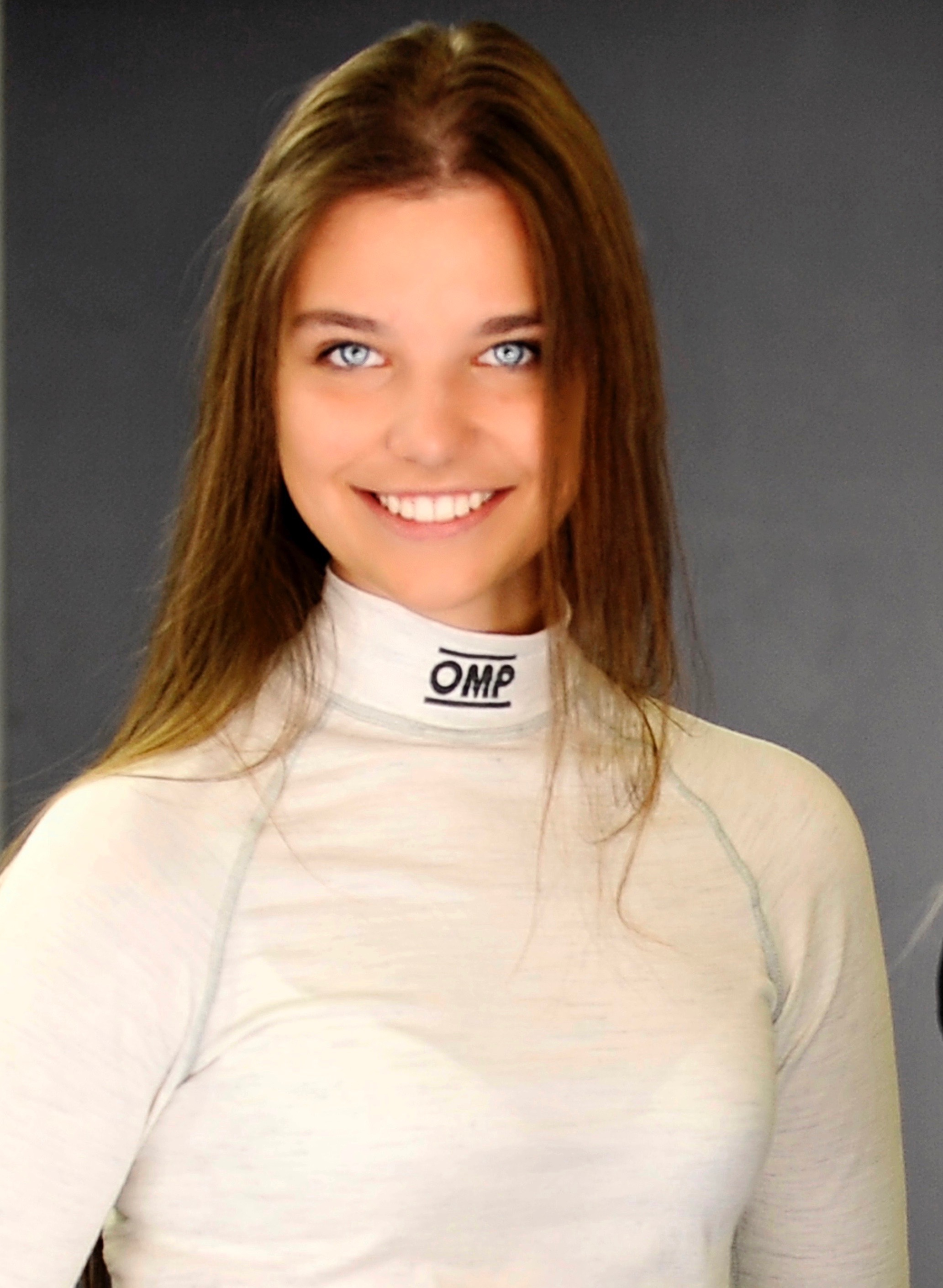 Vivien Keszthelyi racing driver